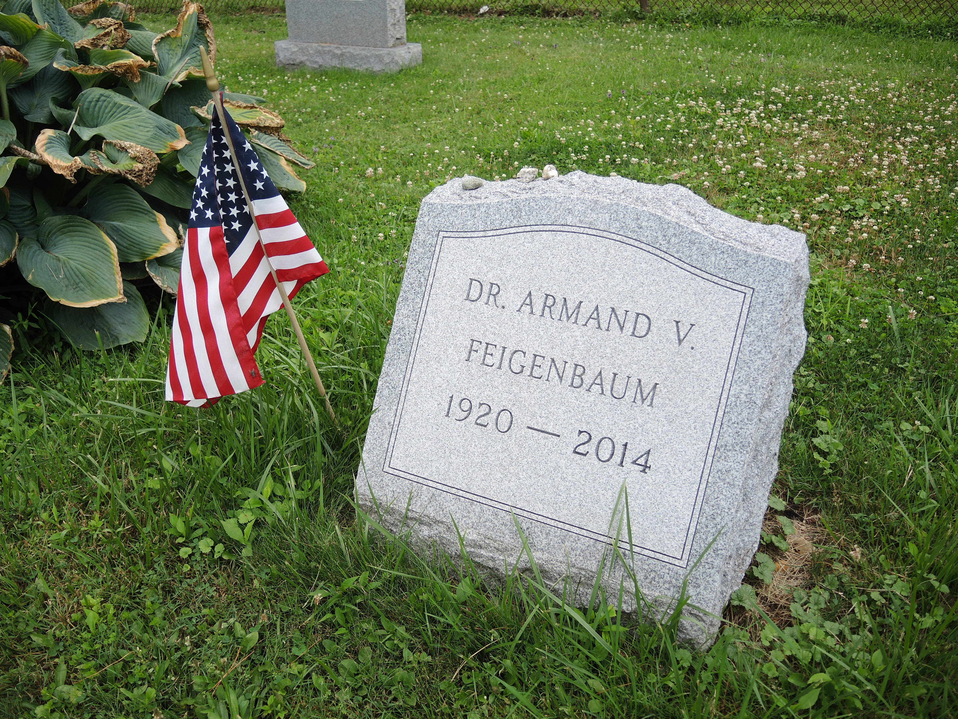 Gravestone of Armand V. Feigenbaum in the Anshe Amunim section of Pittsfield Cemetery